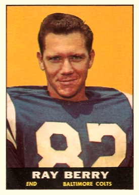 National Football League player Raymond Berry on a 1961 Topps football trading card with the Baltimore Colts